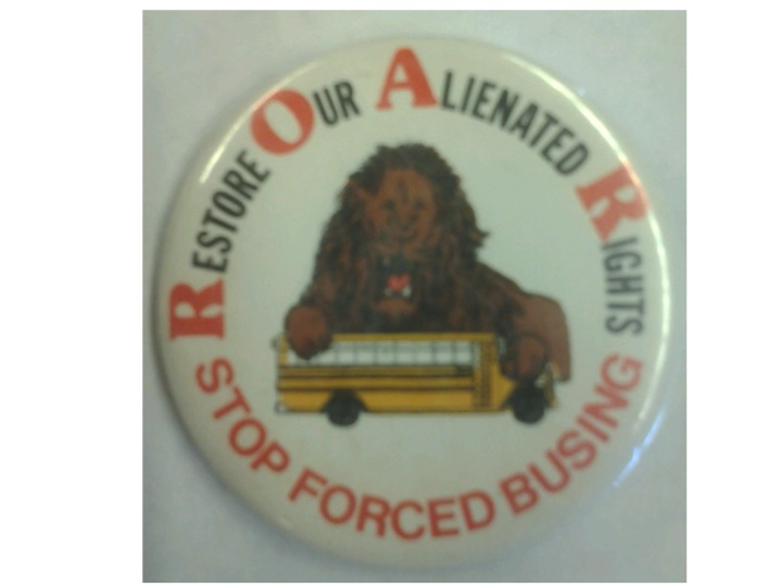 Photograph of a R.O.A.R. button I acquired during Boston's desegregation (1974-1978)